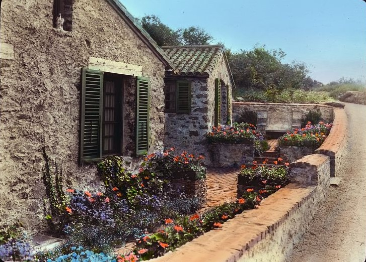 Title ["Surprise Valley Farm," Arthur Curtiss James property, Beacon Hill Road, Newport, Rhode Island. Farmer cottages] Contributor Names Johnston, Frances Benjamin, 1864-1952, photographer Created / Published [1917] Subject Headings - Gardens--Rhode Island--Newport--1910-1920 - Houses--Rhode Island--Newport--1910-1920 - Flowers--Rhode Island--Newport--1910-1920 Format Headings Lantern slides--Hand-colored--1910-1920. Notes - Site History. House Architecture: Grosvenor Atterbury, 1914-1916. Today: Buildings survive as part of the SVF Foundation founded to preserve endangered breeds of livestock. - On slide: Blue star sticker. - Title, date, and subject information provided by Sam Watters, 2011. - Forms part of: Garden and historic house lecture series in the Frances Benjamin Johnston Collection (Library of Congress). - Published in Gardens for a Beautiful America / Sam Watters. New York: Acanthus Press, 2012. Plate 12. - Formerly in Box 26. Medium 1 photograph : glass lantern slide, hand-colored ; 3.25 x 4 in. Call Number/Physical Location LC-J717-X100- 37 [P&P] Repository Library of Congress Prints and Photographs Division Washington, D.C. 20540 USA Digital Id ppmsca 16246 //hdl.loc.gov/loc.pnp/ppmsca.16246 Library of Congress Control Number 2007685937 Reproduction Number LC-DIG-ppmsca-16246 (digital file from original item) Rights Advisory No known restrictions on publication. Online Format image Description 1 photograph : glass lantern slide, hand-colored ; 3.25 x 4 in. LCCN Permalink